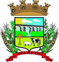 Coat of arms of the city of Rolador, Rio Grande do Sul, Brazil.